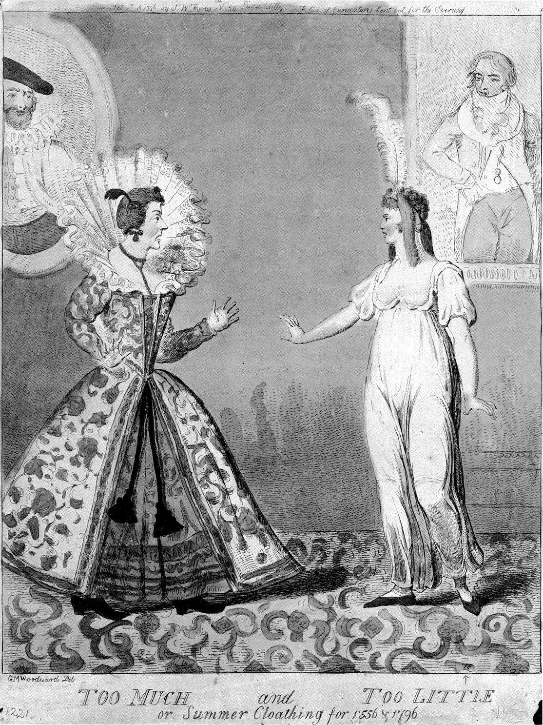 A satirical 1796 contrast between old 16th-century and cutting-edge Directoire clothing styles: "TOO MUCH and TOO LITTLE, or Summer Cloathing for 1556 & 1796", a caricature engraved by Isaac Cruikshank after a drawing by George M. Woodward, published February 8th 1796. For a smaller scan of an untinted version of this same print, see Image:Toomuch-1556_Toolittle-1796_caricature-unc.png. Scanned by H. Churchyard. In 1796, the strongly neoclassically-influenced styles satirized on the right were still very new in England. Notice the single vertical feather springing from the hair of the 1796 woman. The portraits on the wall behind the two ladies show corresponding male clothing styles for the two eras.